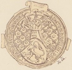 Seal of King Haakon VI Magnusson of Norway, based on 17 documents, dated 1358–69. Text: "S/ECRETUM HAQUINI : DEI : GRaciA : REGIS : NORWEGIE". Size: 48 mm.